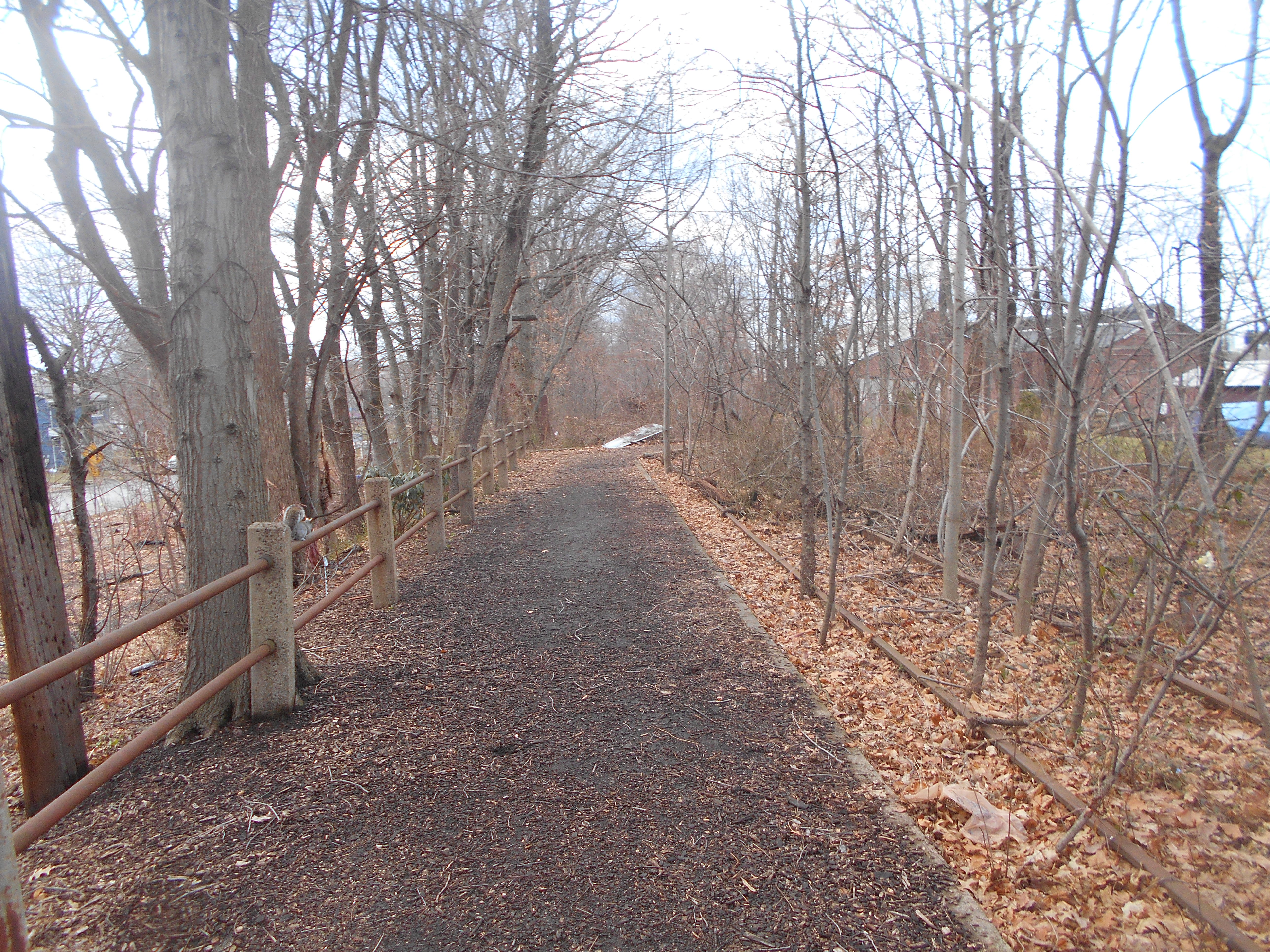 The former Carlton Hill station in the Erie Railroad main line. The station platform is visible on the left.